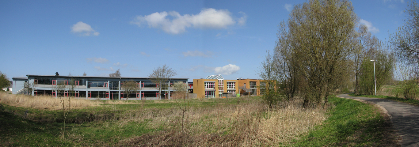 Secondary School Theodor-Storm-Schule in german city of Husum